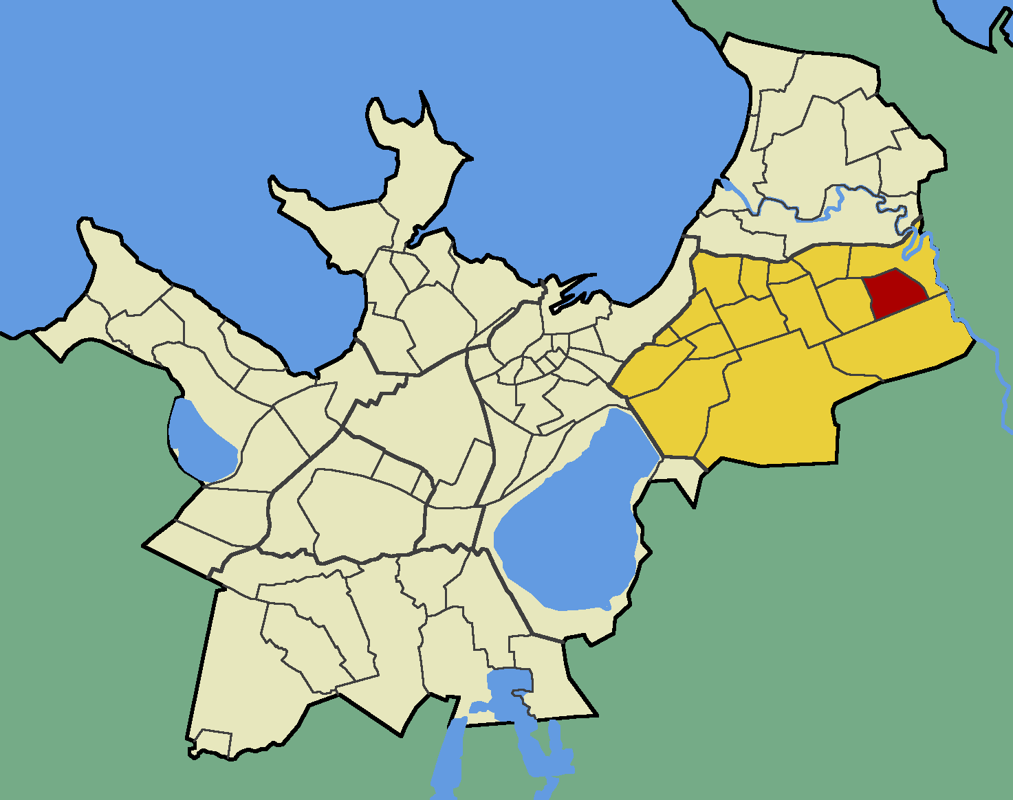 Map of Tallinn (Estonia) with borders of the quarters, Lasnamäe district and Seli quarter emphasised